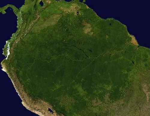 Amazon Basin as seen from space.